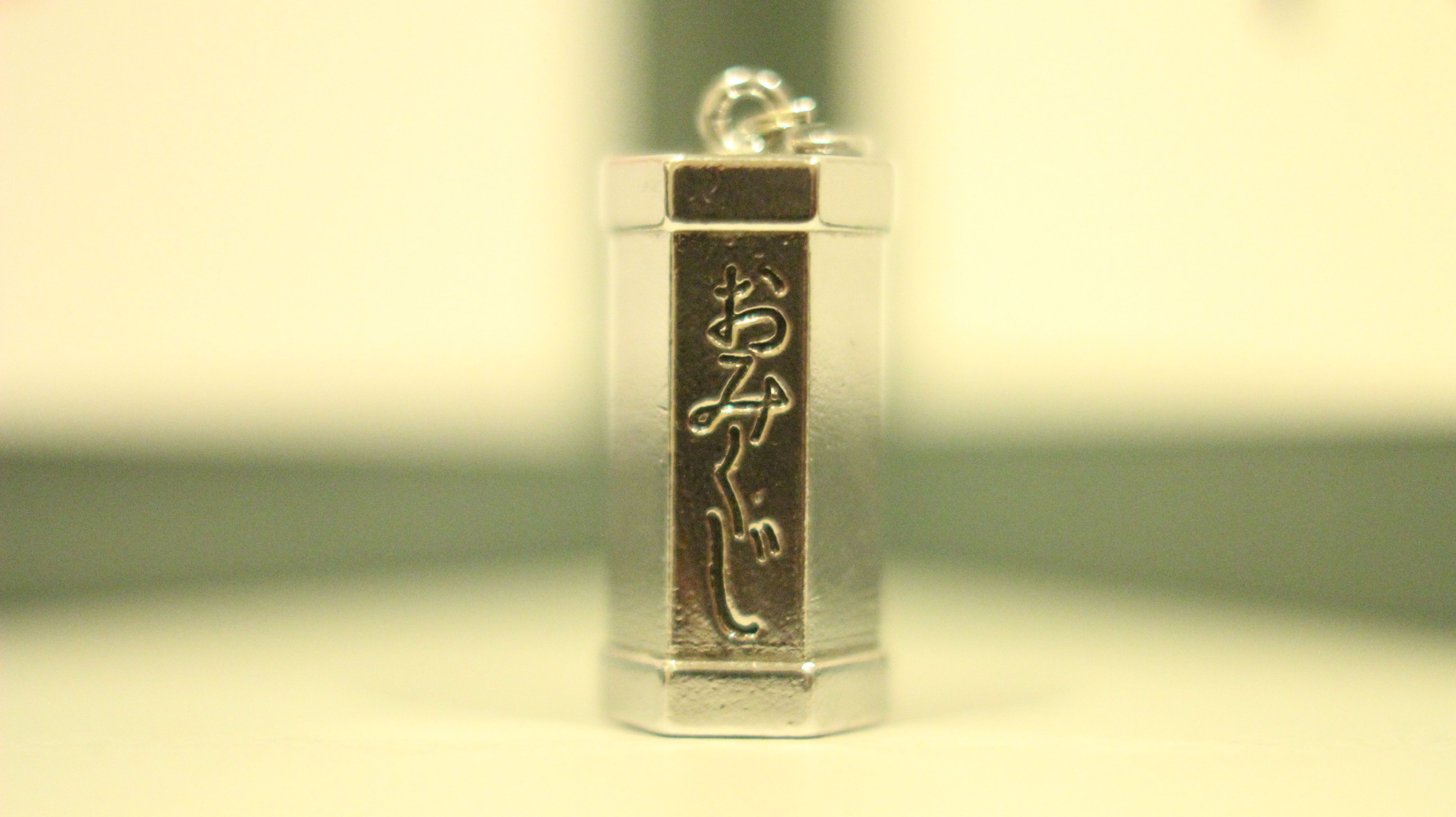 Pocket Omikuji (Macro Photography)